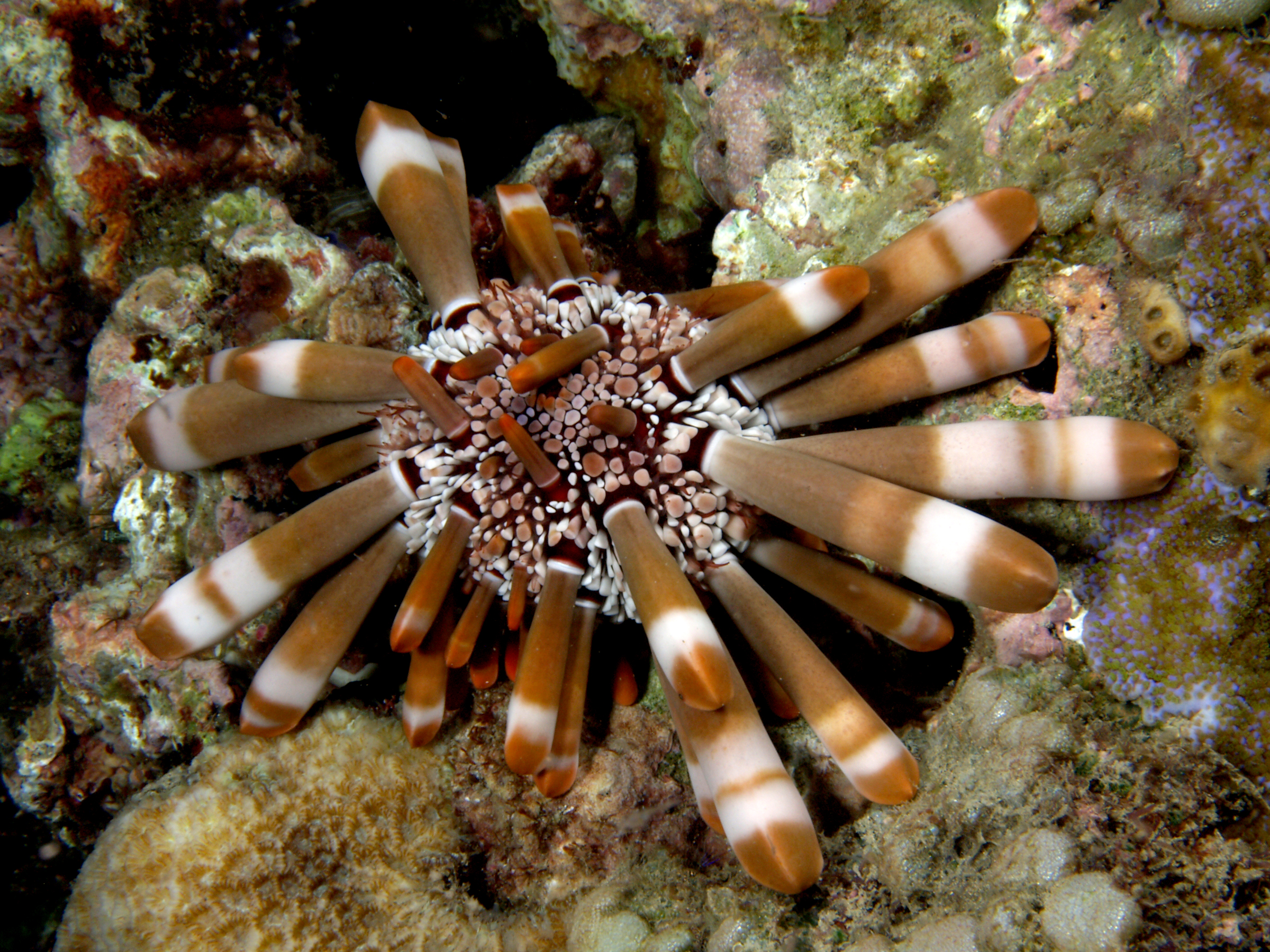 Heterocentrotus mamillatus (Slate pencil urchin)